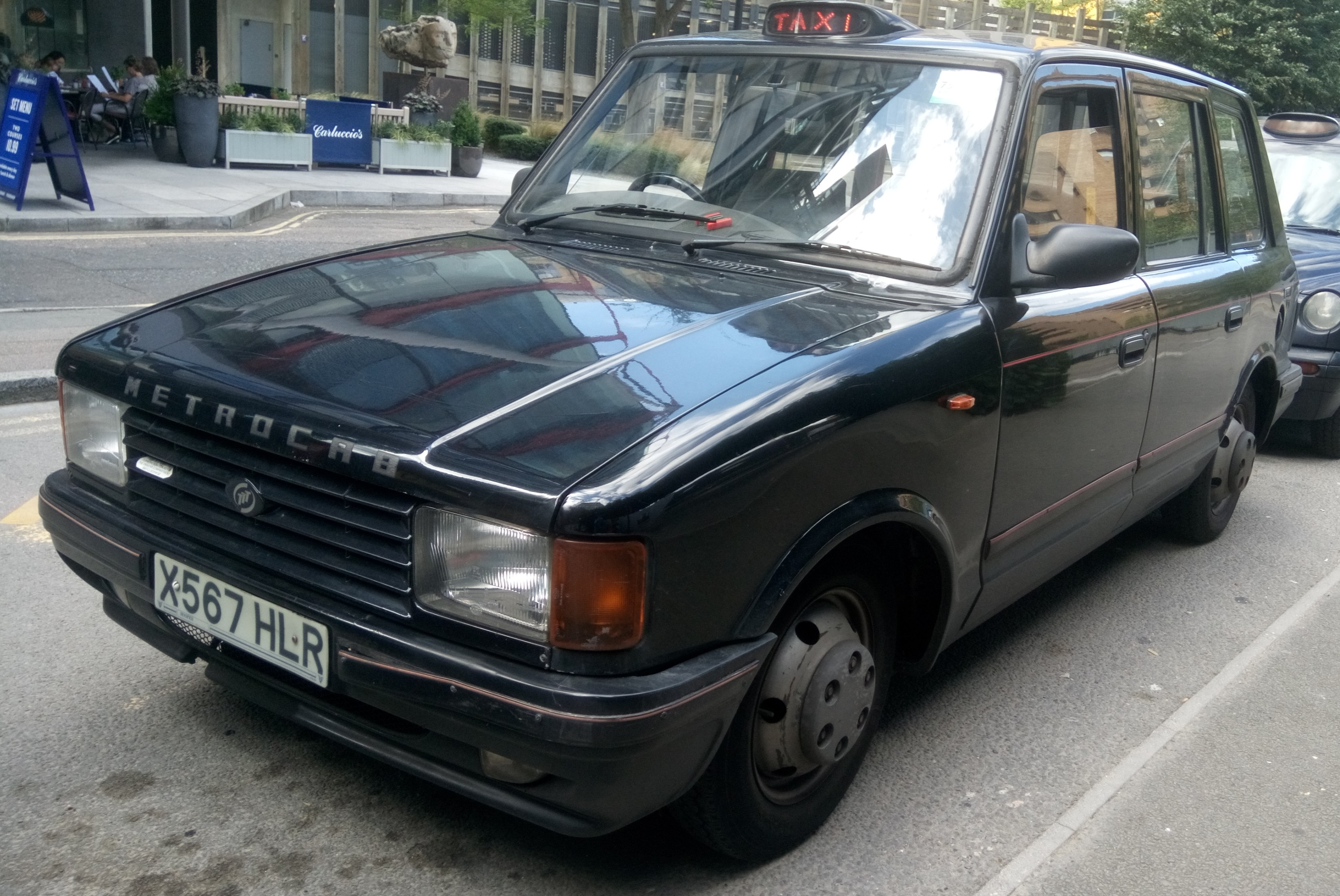 A black MCW Metrocab in London,United Kingdom